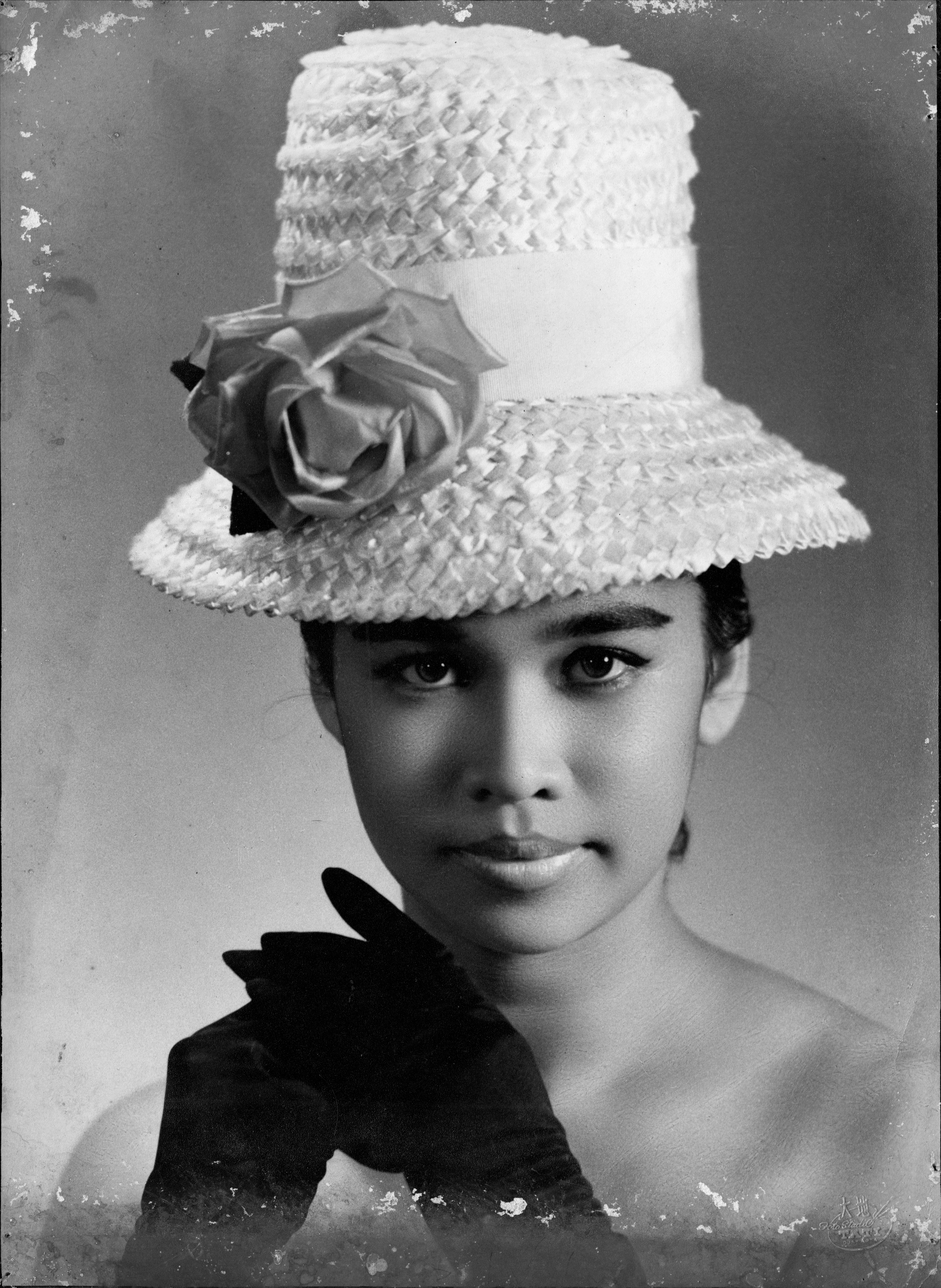 Baby Huwae, c 1963, Tati Photo Studio.